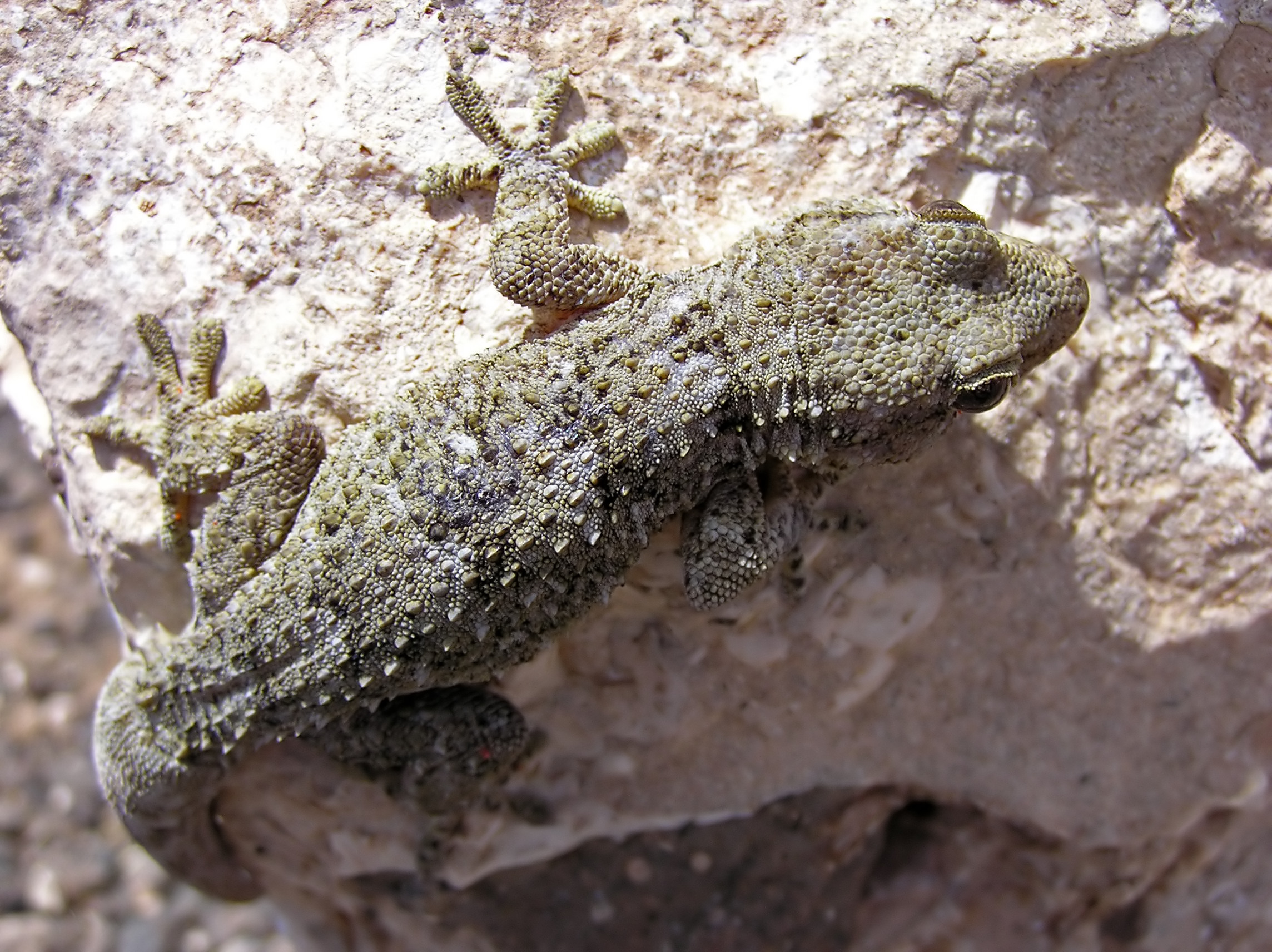 Spiny Gecko in rocky desert habitat near Salinas del Janubio on the Canary Island of Lanzarote. Photograph by Yummifruitbat in July 2006. =Tarentola, probably T. delalandii or T. boettgeri B kimmel 11:54, 10 September 2006 (UTC)